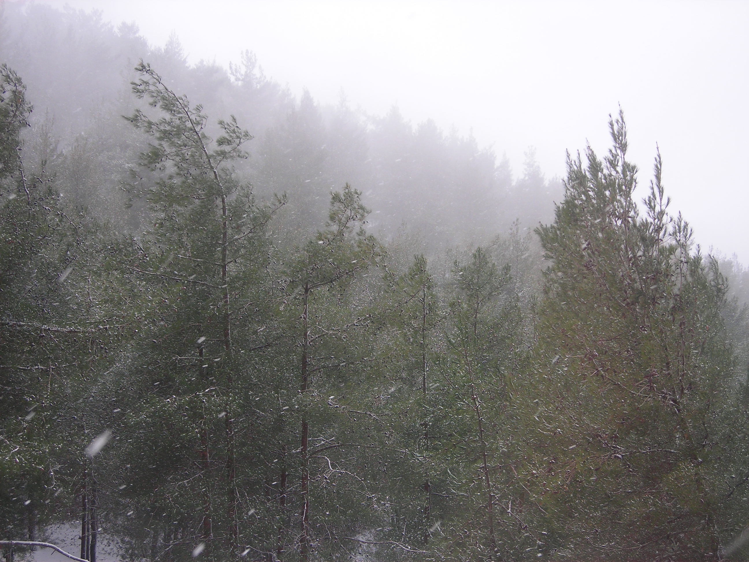 Jerusalem forest scenery from the Revida area